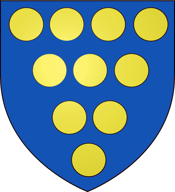 Arms of La Zouch of Lubbesthorp, Leicestershire: Azure, ten bezants, 4,3,2,1 (a difference of the arms of the senior branches of Zouche (of Ashby and of Haryngworth, who bore Gules, ten bezants, 4,3,2,1). See e.g. J. Nichols, 'History and Antiquities of Leicestershire', vol. iii, pt. 1, p. 514. London, 1800. See also Burke's General Armory, 1884[1]